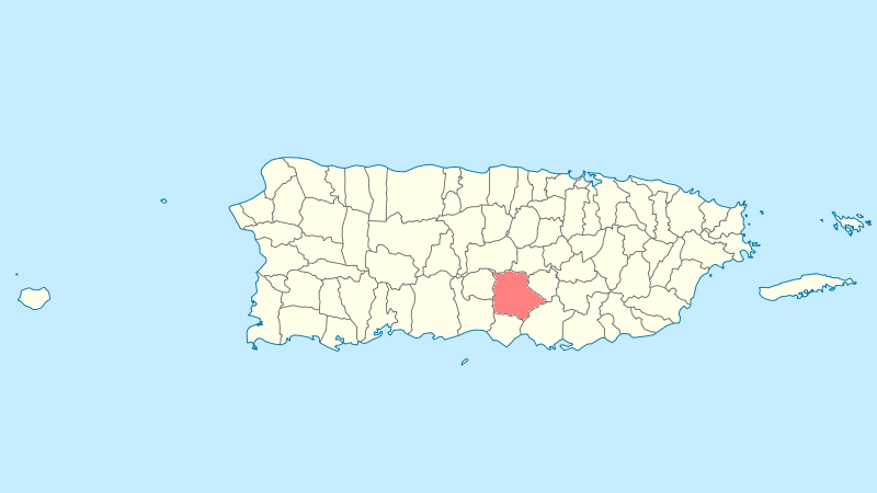 Municipal locator of Puerto Rico